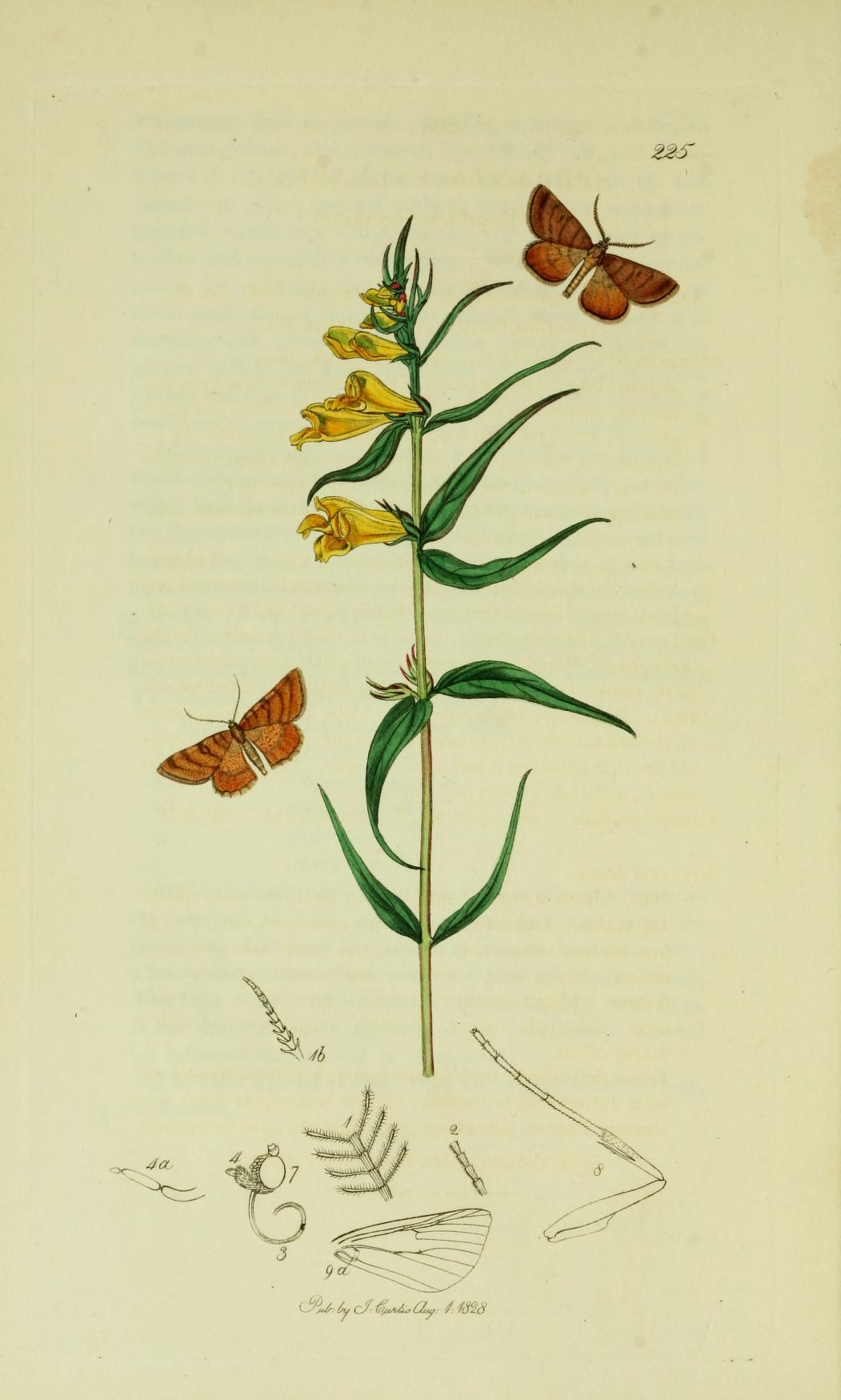 An illustration from British Entomology by John Curtis. Lepidoptera: Speranza sylvaria Itame (or Macaria) brunneata (Rannoch Looper).